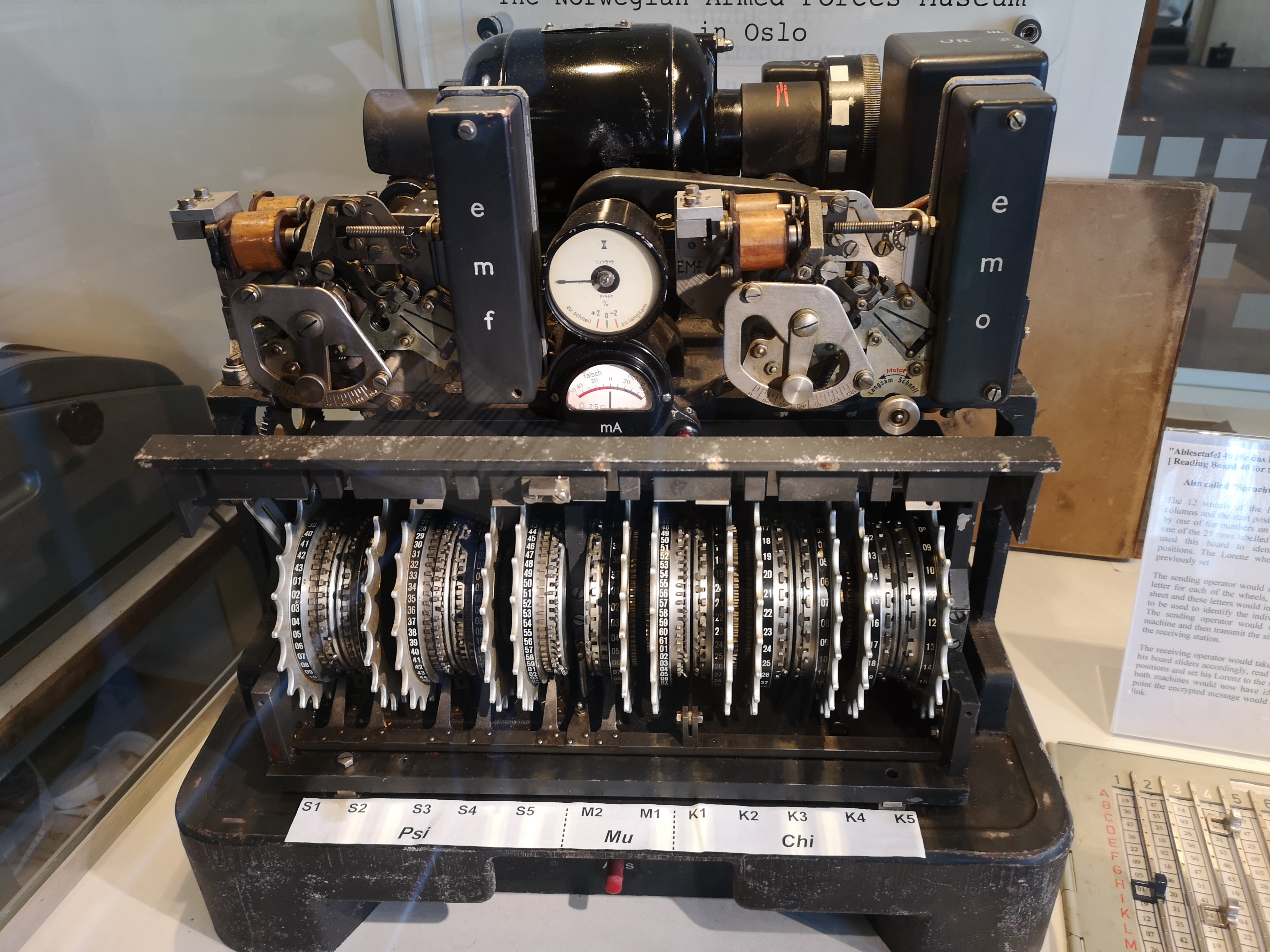 Lorenz SZ42 teleprinter attachment cipher machine. On display in the Tunny Gallery at The National Museum of Computing on Bletchley Park. It is on loan from the Norwegian Armed Services Museum.